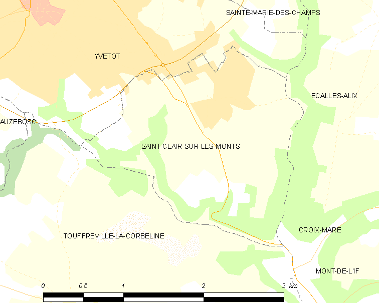 Map of French municipality Saint-Clair-sur-les-Monts